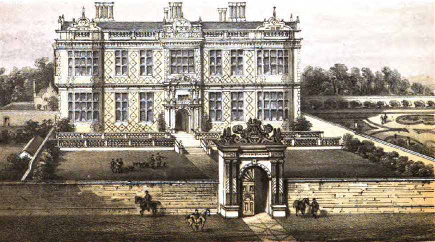 Crewe Hall, Cheshire. From an engraving taken Sir Randolph Crewe's time